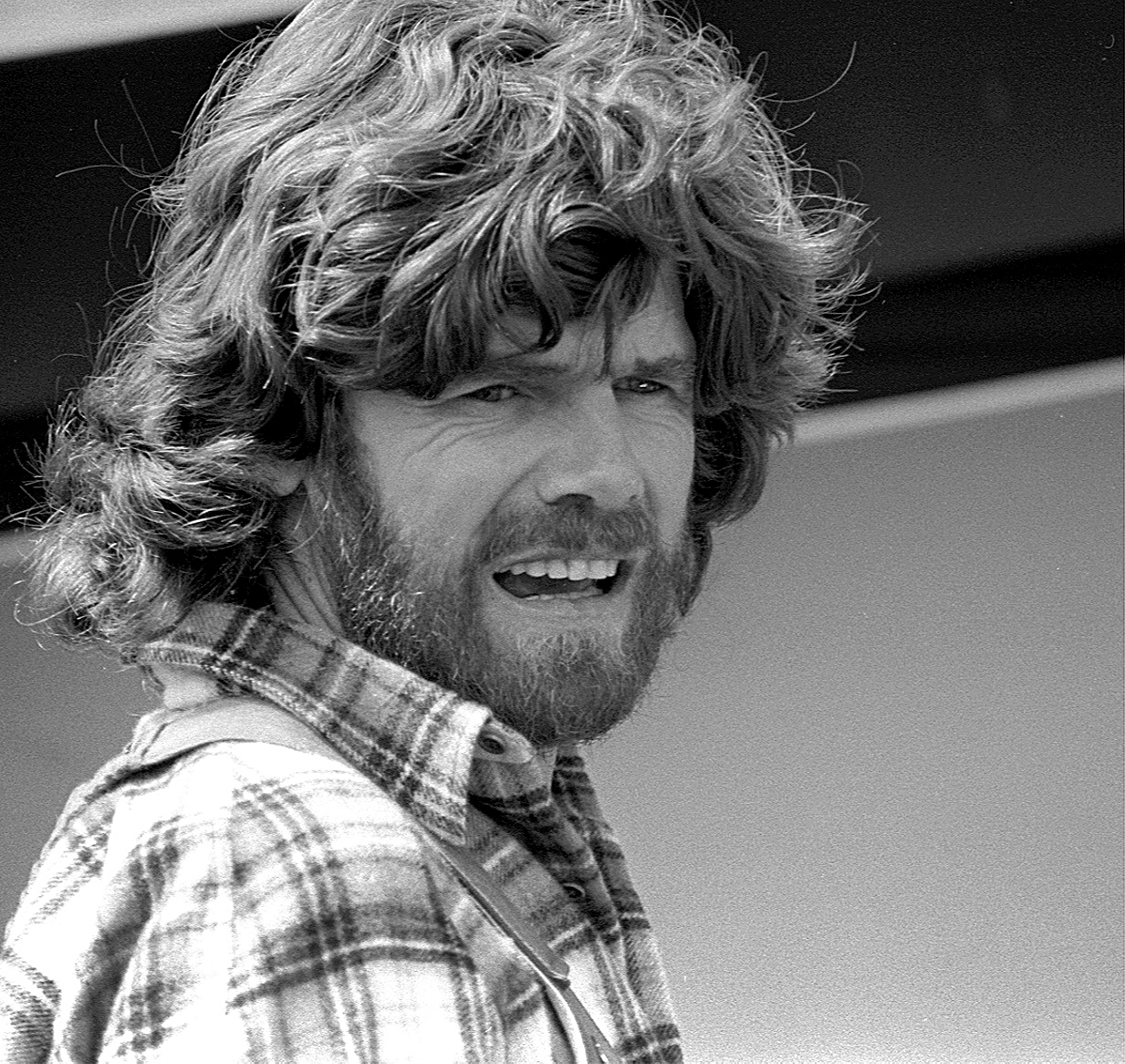 Reinhold Messner in 1985 in Pamir Mountains.